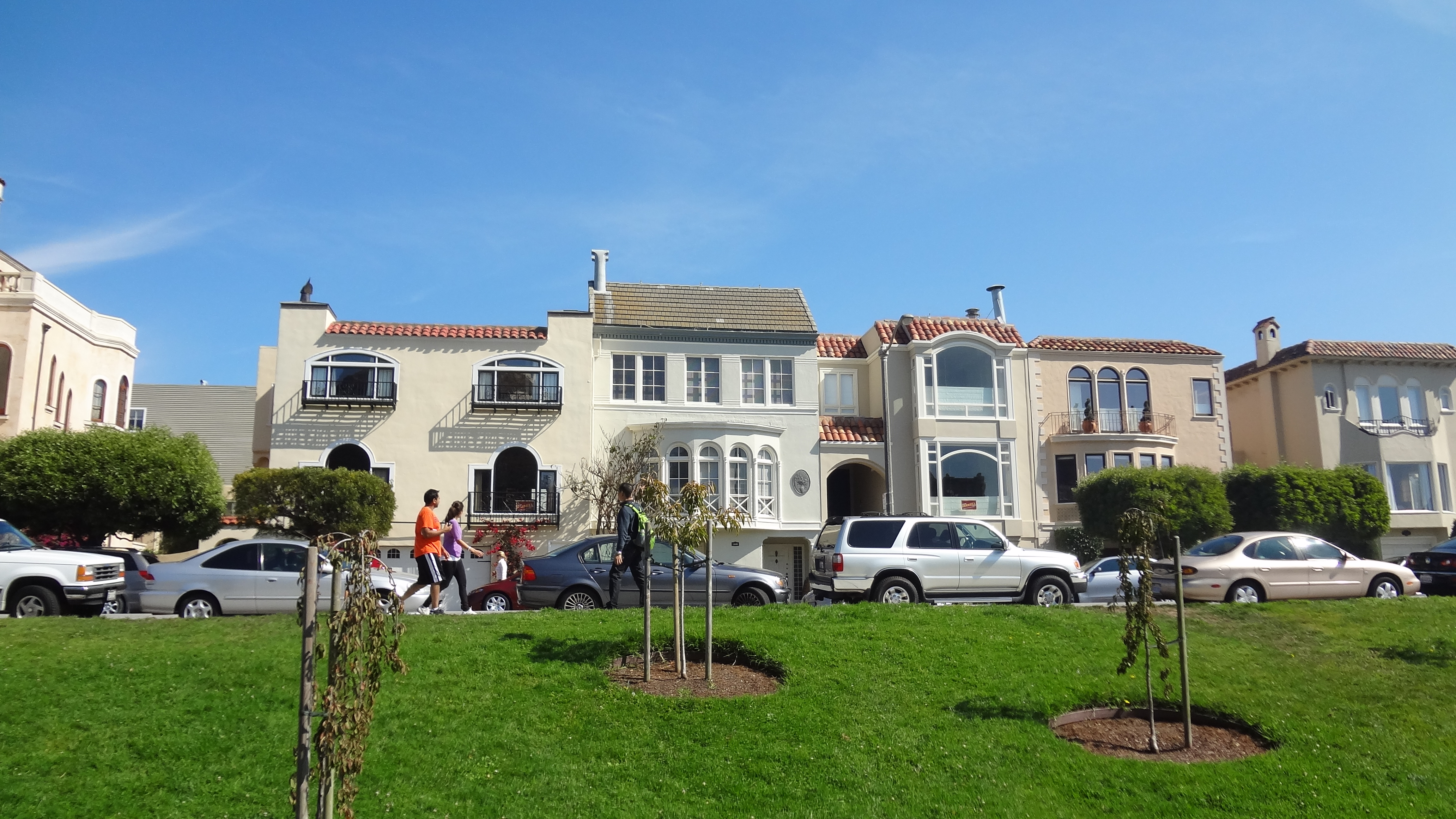 Marina districts houses architecture in San Francisco, CA, USA. By the founder of